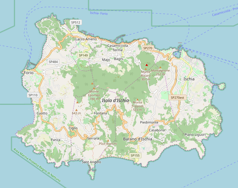 Karte Insel Ischia This map may be incomplete, and may contain errors. Don't rely solely on it for navigation.